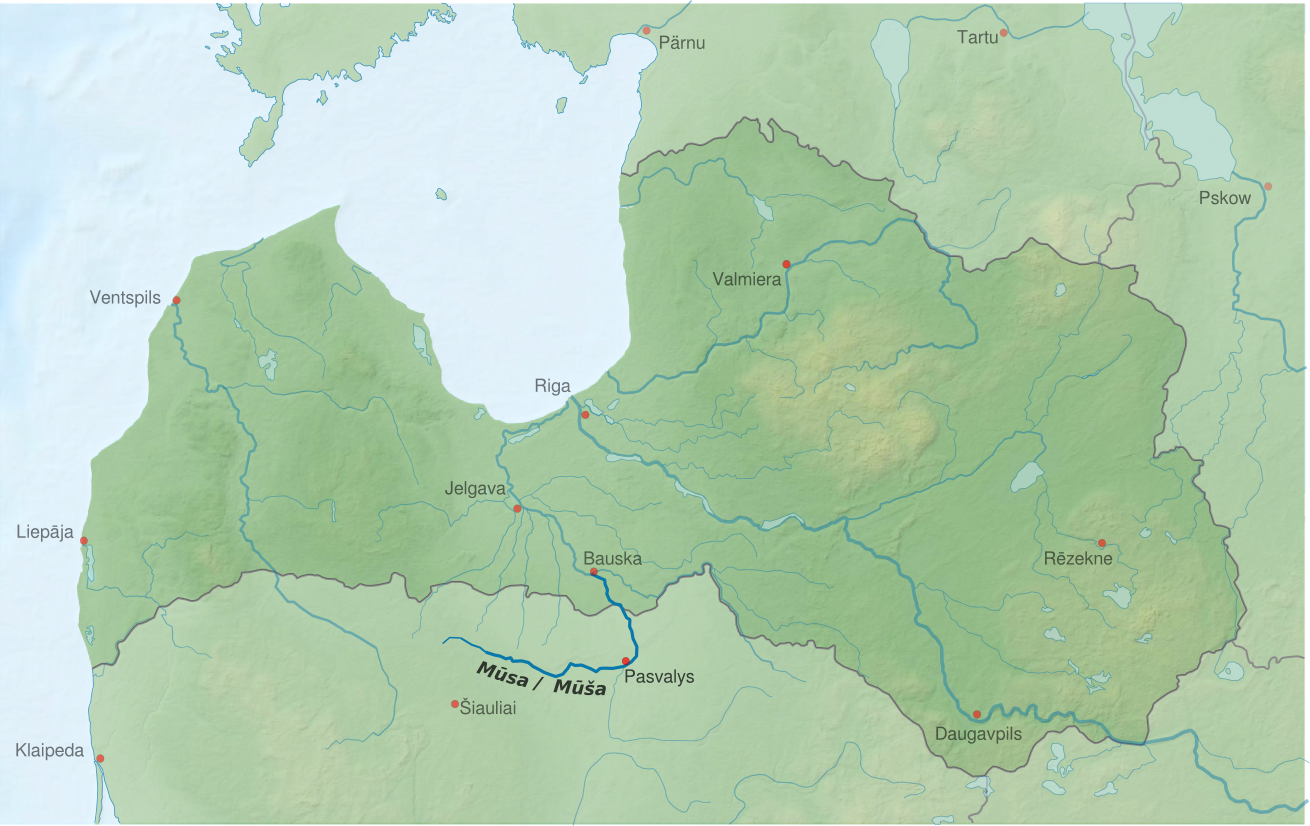 Map of river Mūsa in Latvia and Lithuania based on relief-location maps by users: NNW, Виктор В, Alexrk2, Chumwa, Karlis